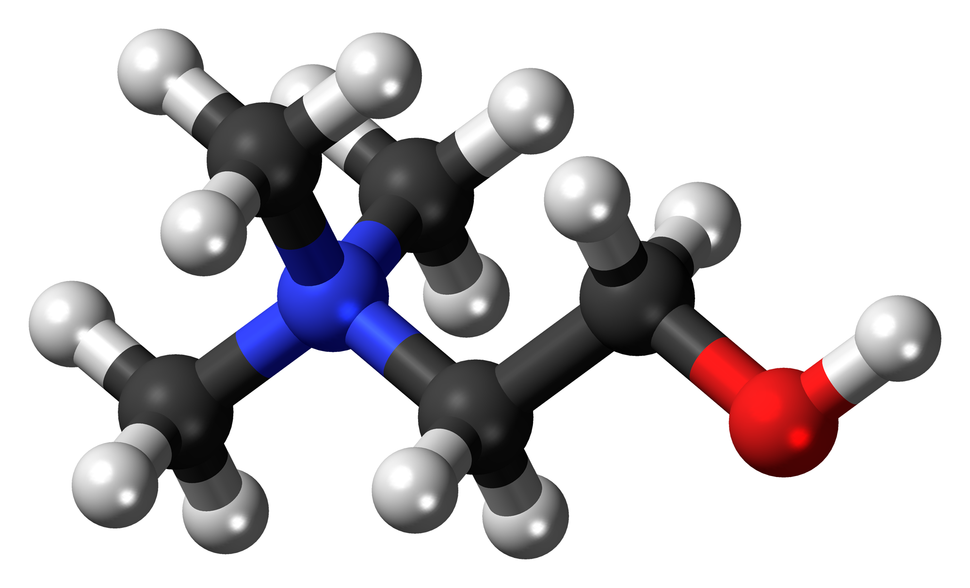 Ball-and-stick model of the choline cation, a water-soluble essential nutrient. The nitrogen atom has a positive charge. Colour code: Carbon, C: black Hydrogen, H: white Oxygen, O: red Nitrogen, N: blue